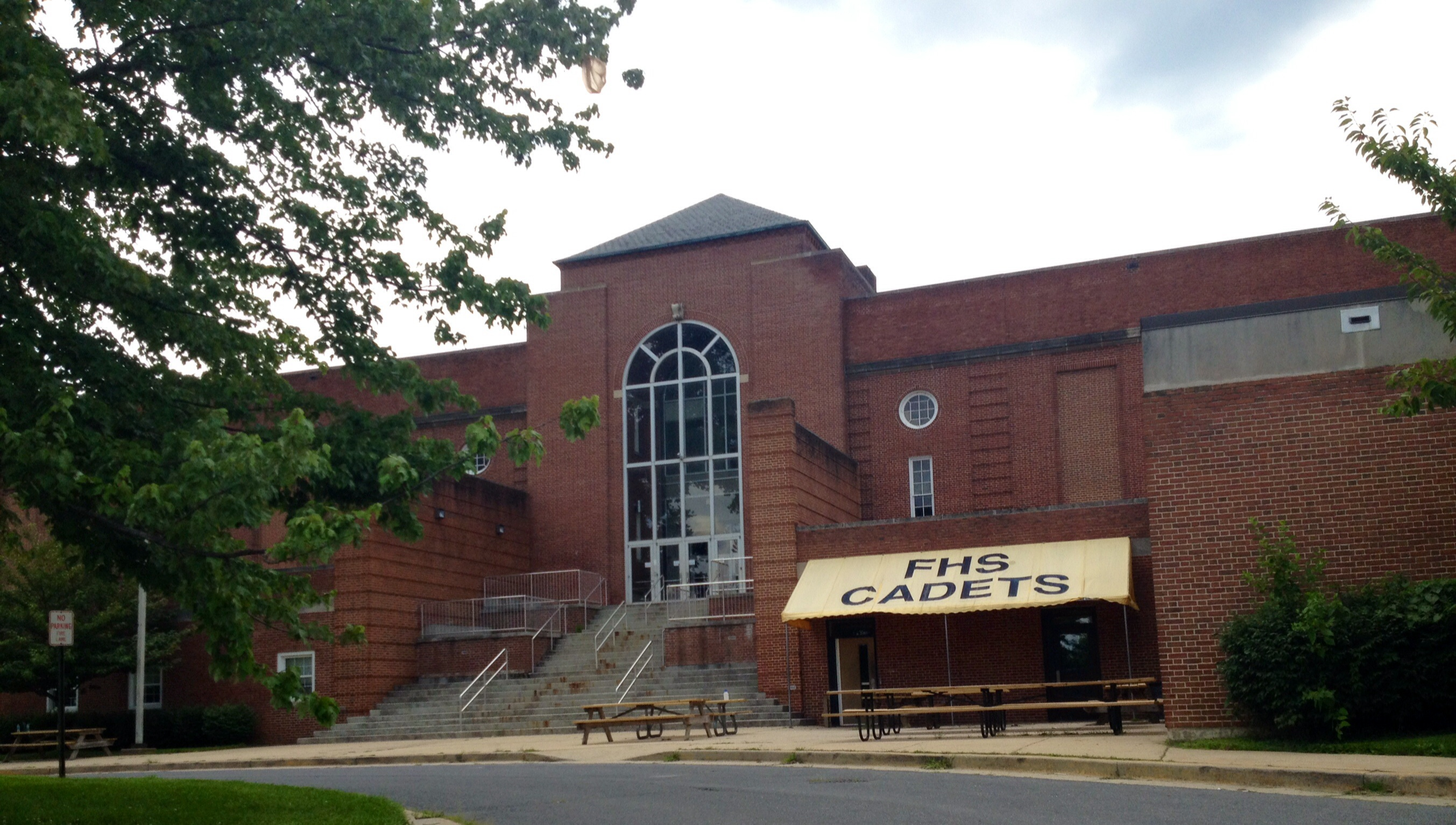 Frederick High School Original Entrance